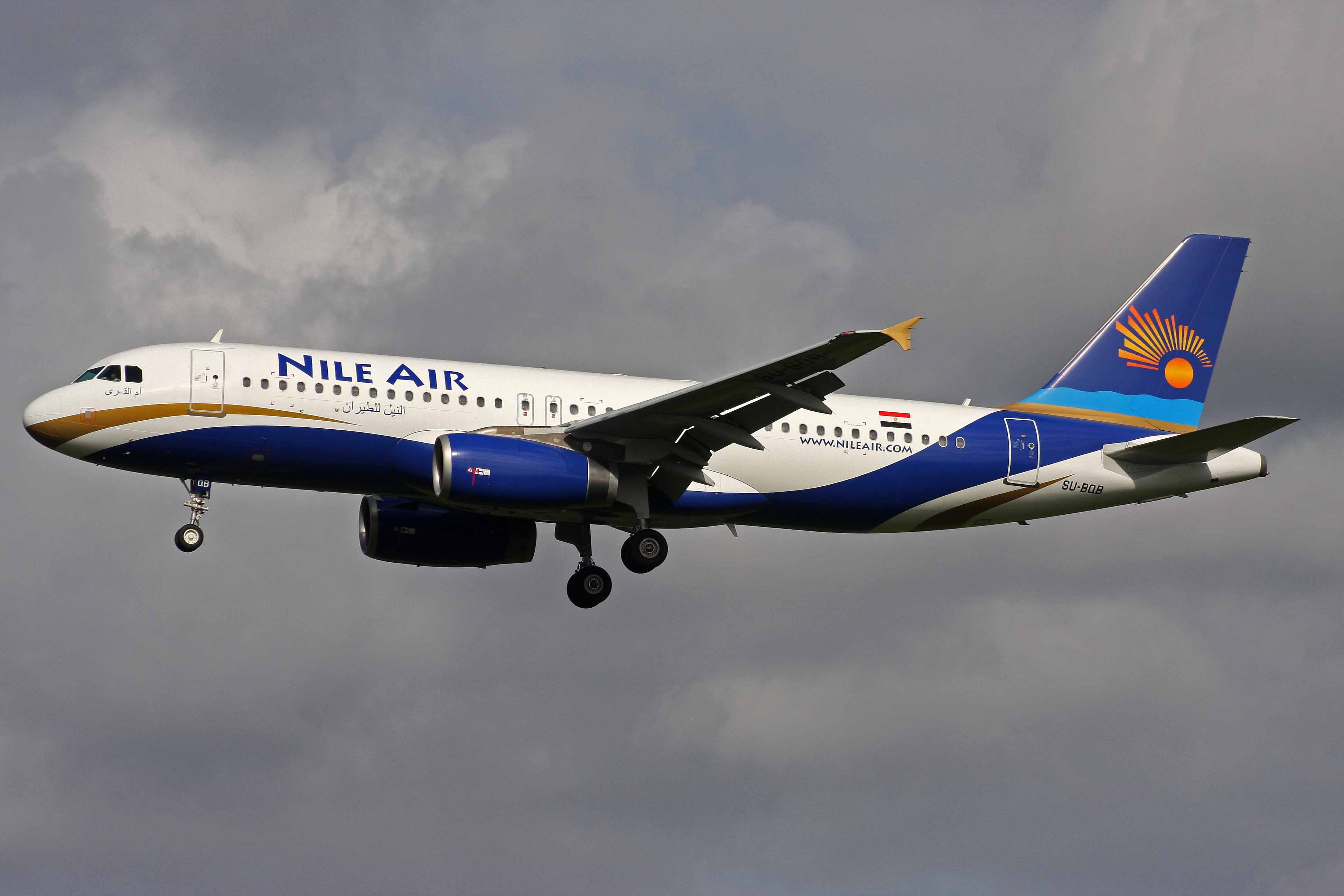 ops for Libyan Airlines